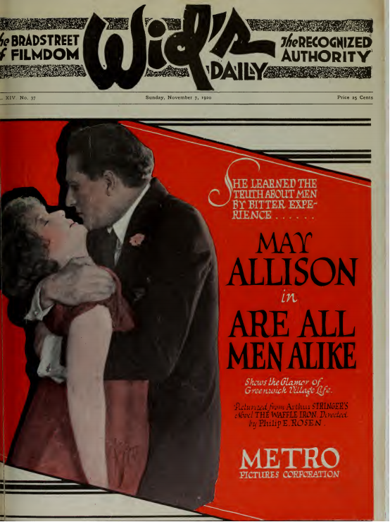 Advertisement with May Allison in the American comedy drama film Are All Men Alike? (1920), directed by Philip E. Rosen.